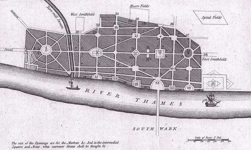 Plan for the rebuilding of London after the Great Fire, submitted by Sir John Evelyn